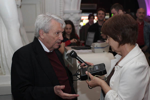 Predrag Matvejević giving an interview on Subversive Festival